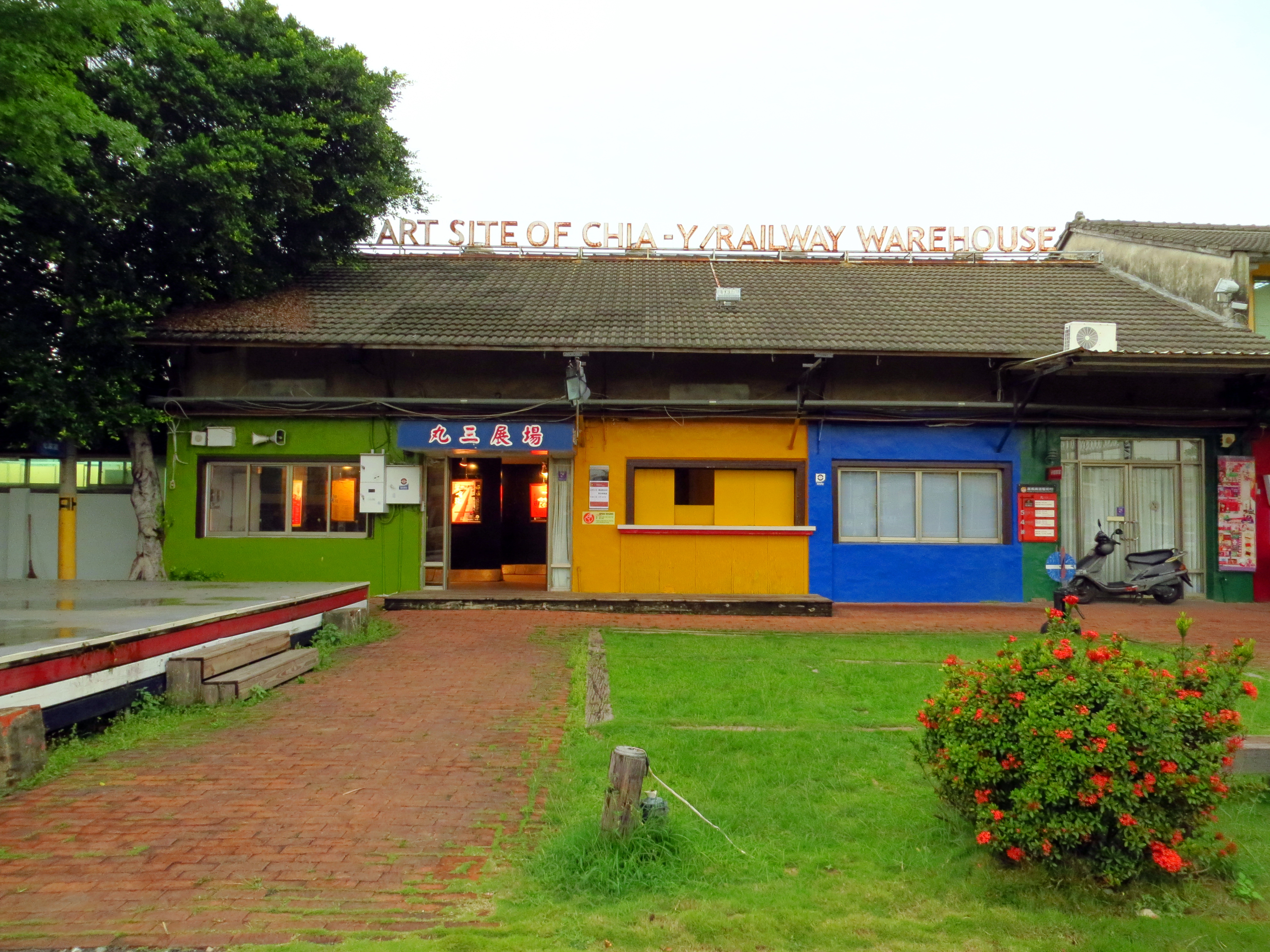 Art Site of Chiayi Railway Warehouse, Chiayi City, Taiwan.